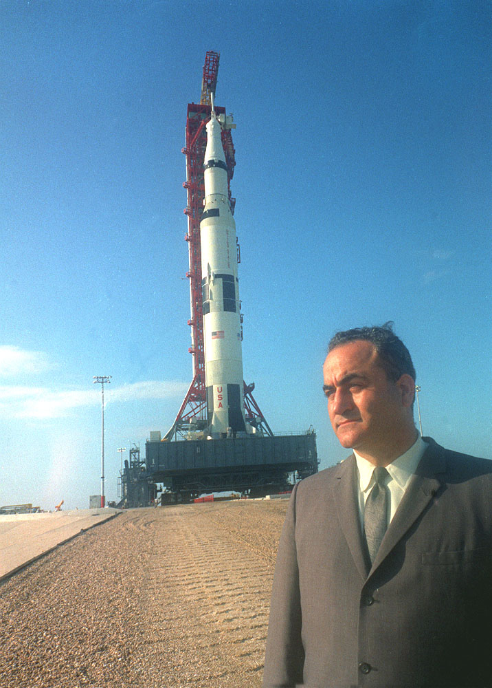 Rocco Petrone standing in front of a Saturn V launch vehicle. Petrone was the third director of the NASA's Marshall Space Flight Center.